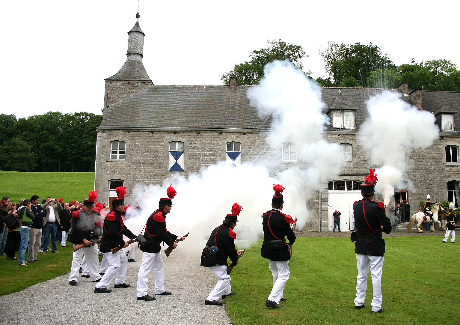 Acoz (Belgium): salvo fired in the castle courtyard during "St. Rolende's March" (2007). Walon: Âcoz (Bèljike): salve satchéye dins l’coûr do tchèstê sul timps dol « Marche Sinte-Rolende » (2007).